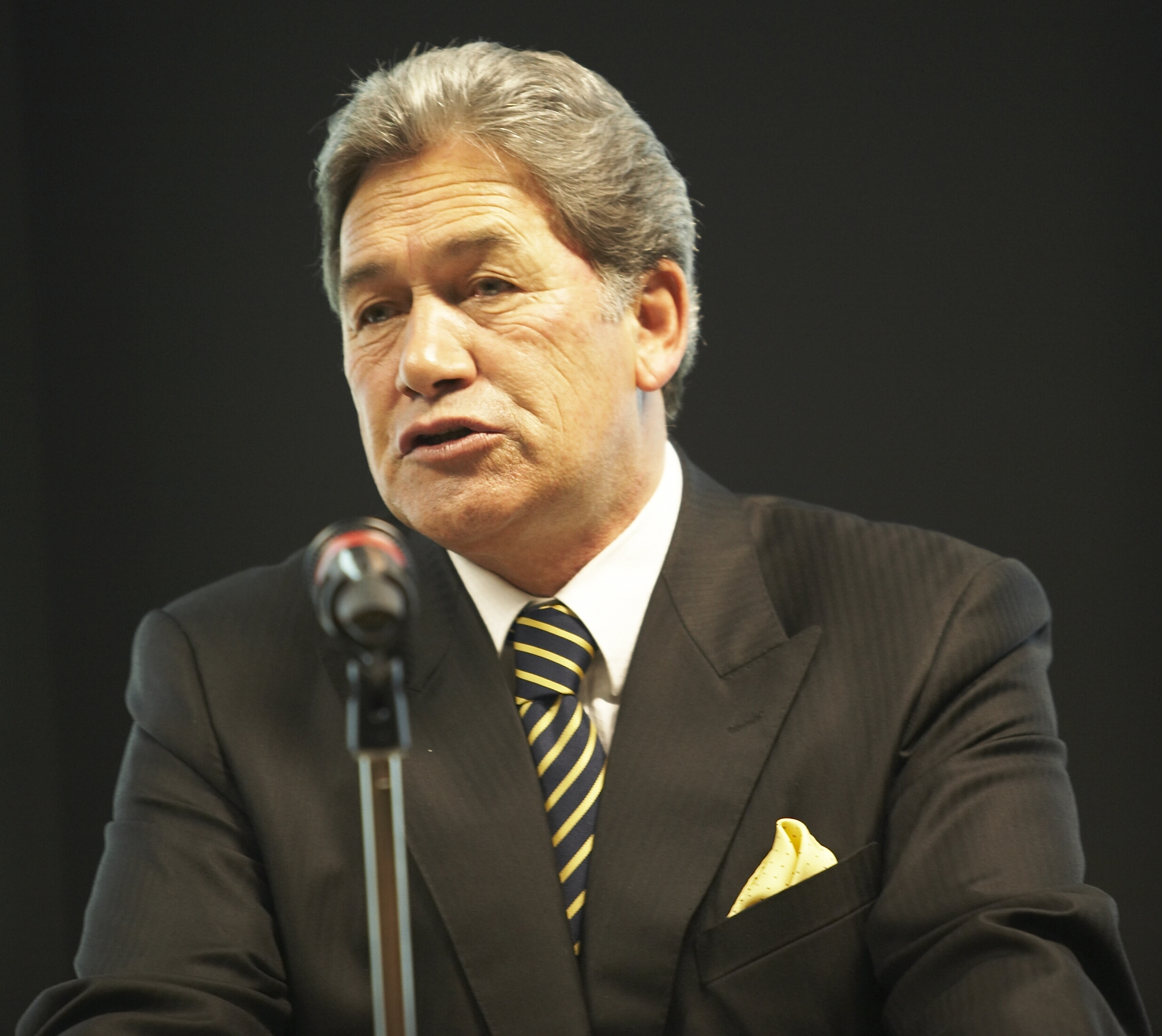 This image was taken at the Europa Lecture 2008, University of Auckland, and is owned by the European Union Centres Network.